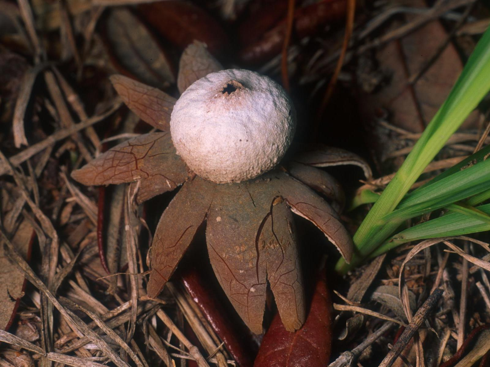 The earthstar mushroom Astraeus hygrometricus, found in Orlando, Florida.